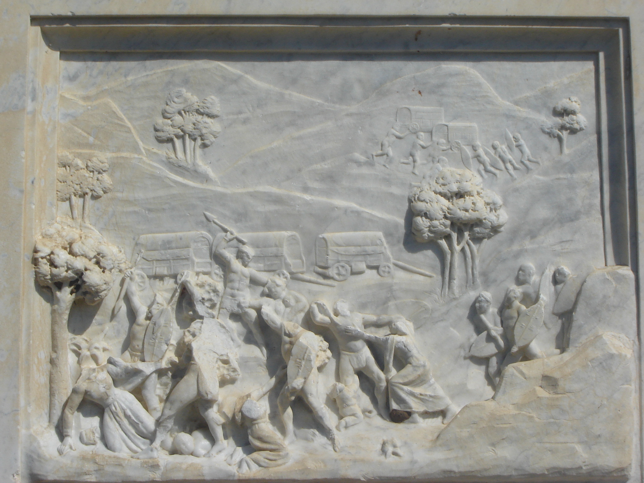 Plaque on the Blaauwkranz monument depicting the events at Blaauwkranz where a large number of Voortrekkers where murdered by a Zulu impi. Vandalism of the monument is evident from the damage to the figurines on the plaque.